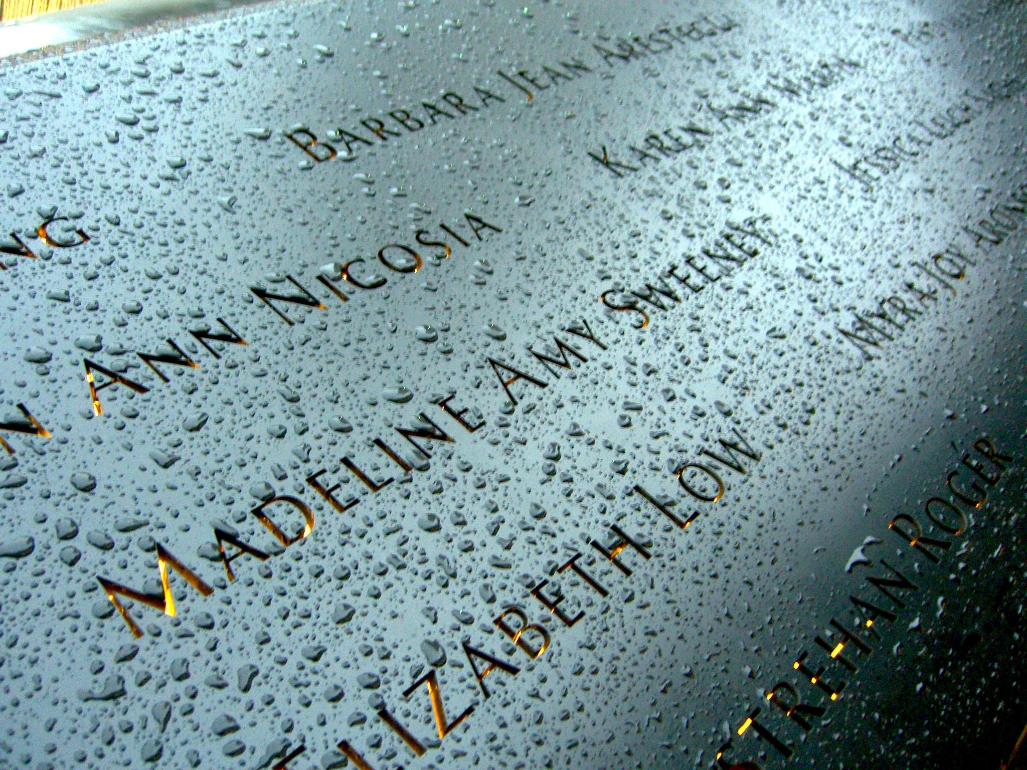 The name of Madeline Amy Sweeney is seen with those of other 9/11 victims from American Airlines Flight 11, inscribed on bronze panel N-74 of the North Pool of the National September 11 Memorial in Manhattan, as seen on December 6, 2011. This photo was created by Luigi Novi. If you have any questions, you can contact me by sending me an email or User talk:Nightscream